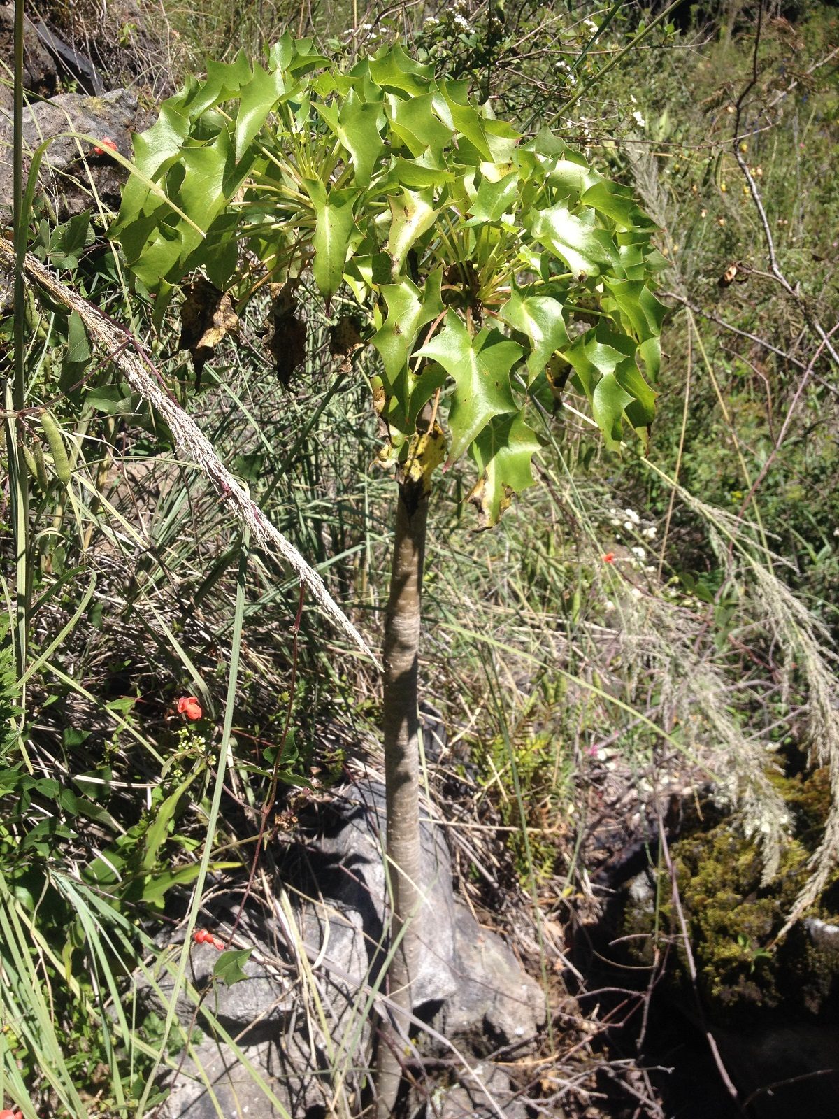 Commonly known as palo loco or palo bobo (crazy stick, foolish stick), Pittocaulon praecox is a shrub or small tree native to central Mexico.